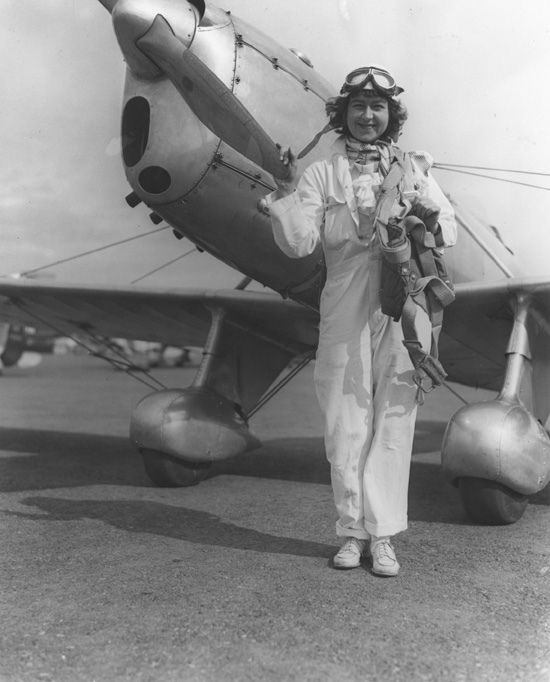 Catalog #: BIOI00027 Last Name: Ingalls First Name: Laura Notes: Repository: San Diego Air and Space Museum Archive